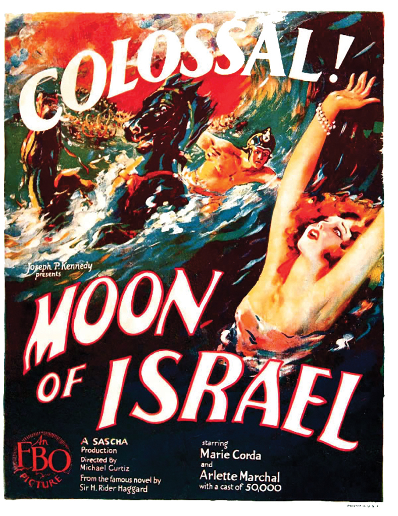 American film poster for the silent film The Moon of Israel (originally Die Sklavenkönigin, Austria, 1924)